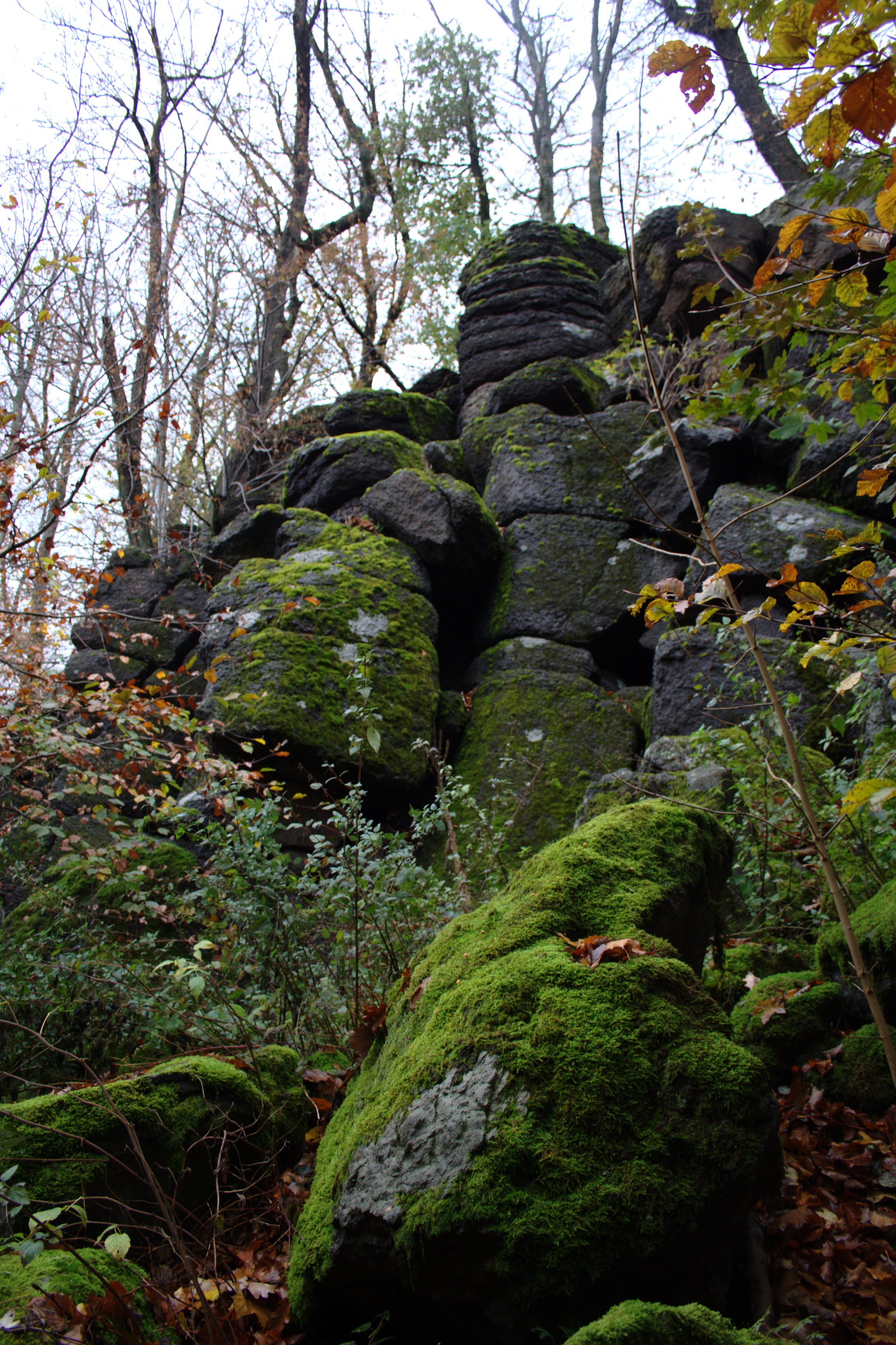 Mountain peak - Landenhaeuser Stein - Natural outcrop (Basalt)